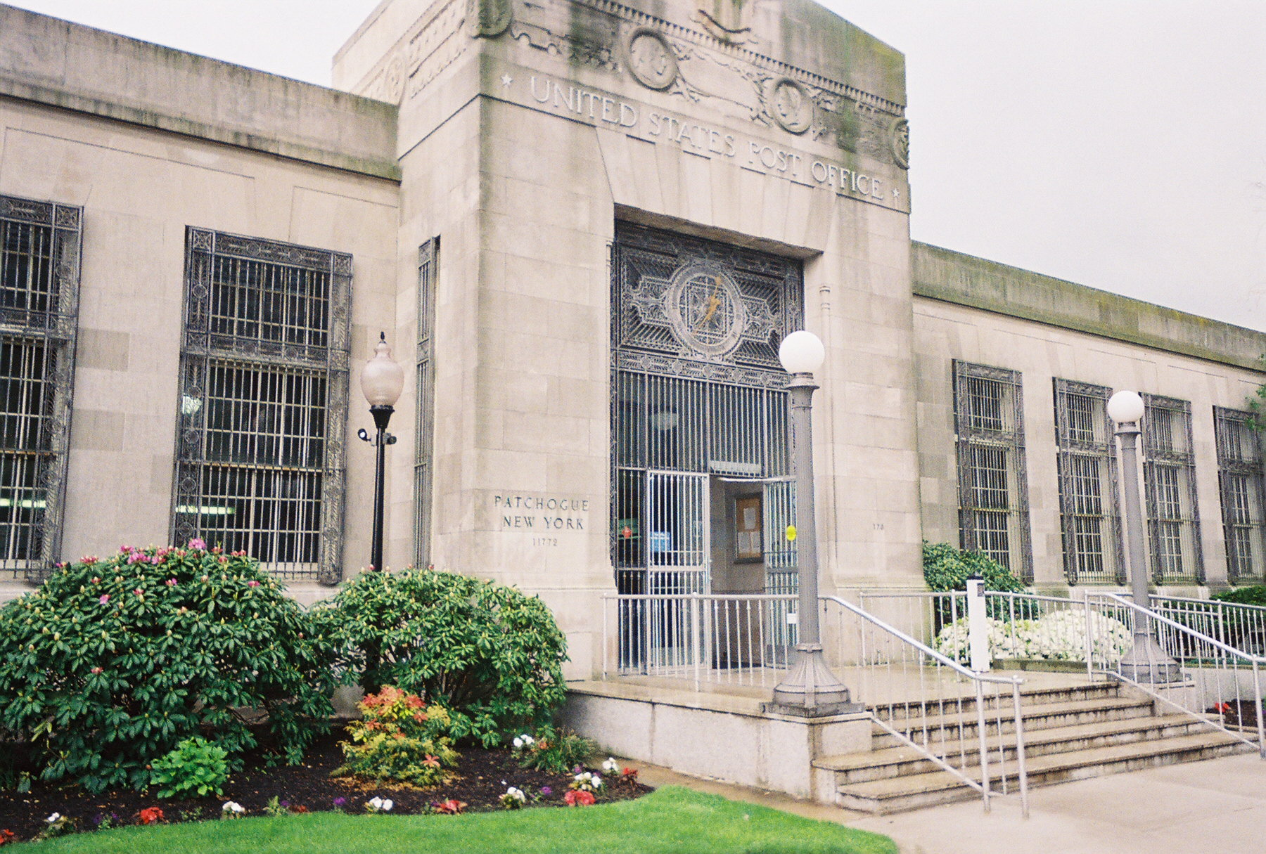 View of the front door of the historic United States Postal Service building on East Main Street in Patchogue, New York.